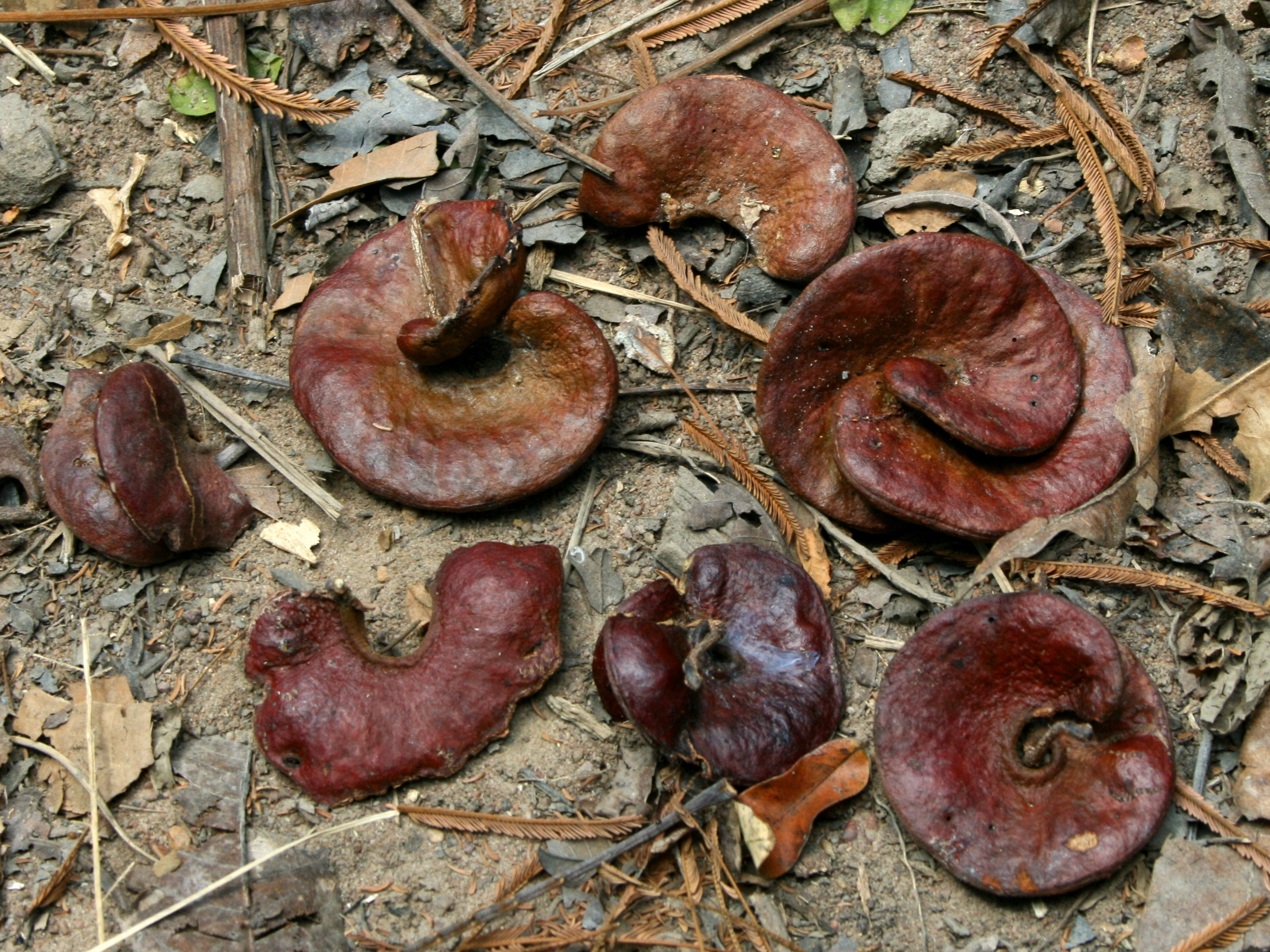 Fruits of Enterolobium schomburgkii, Cacuri on Rio Ventuari, Venezuela